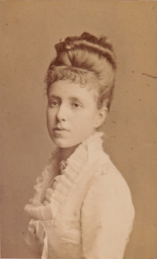 Maria Christina of Austria - Queen of Spain